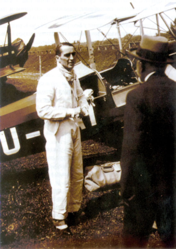 Aviator Tadija Sondermajer 1932